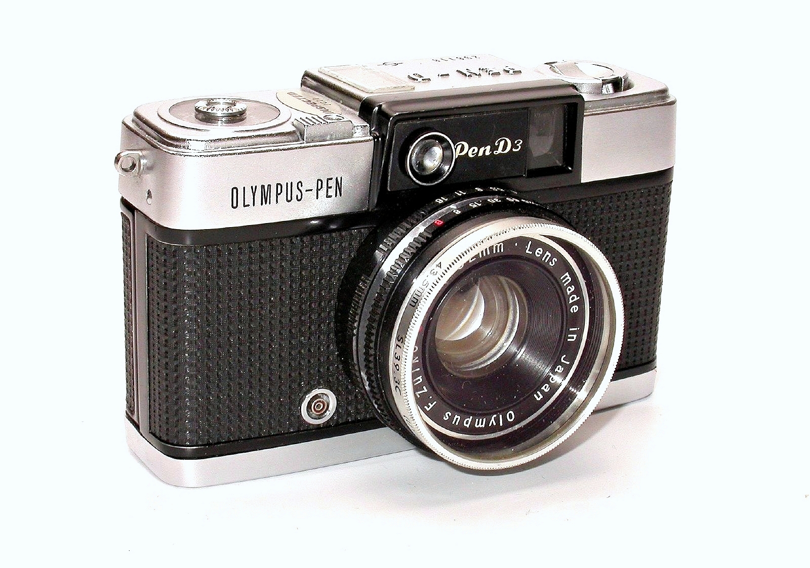 One of the range of great Olympus half-frame cameras.